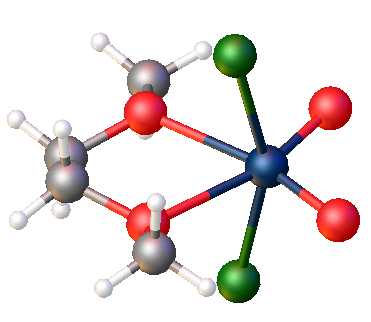 Structure of dme adduct of WO2Cl2